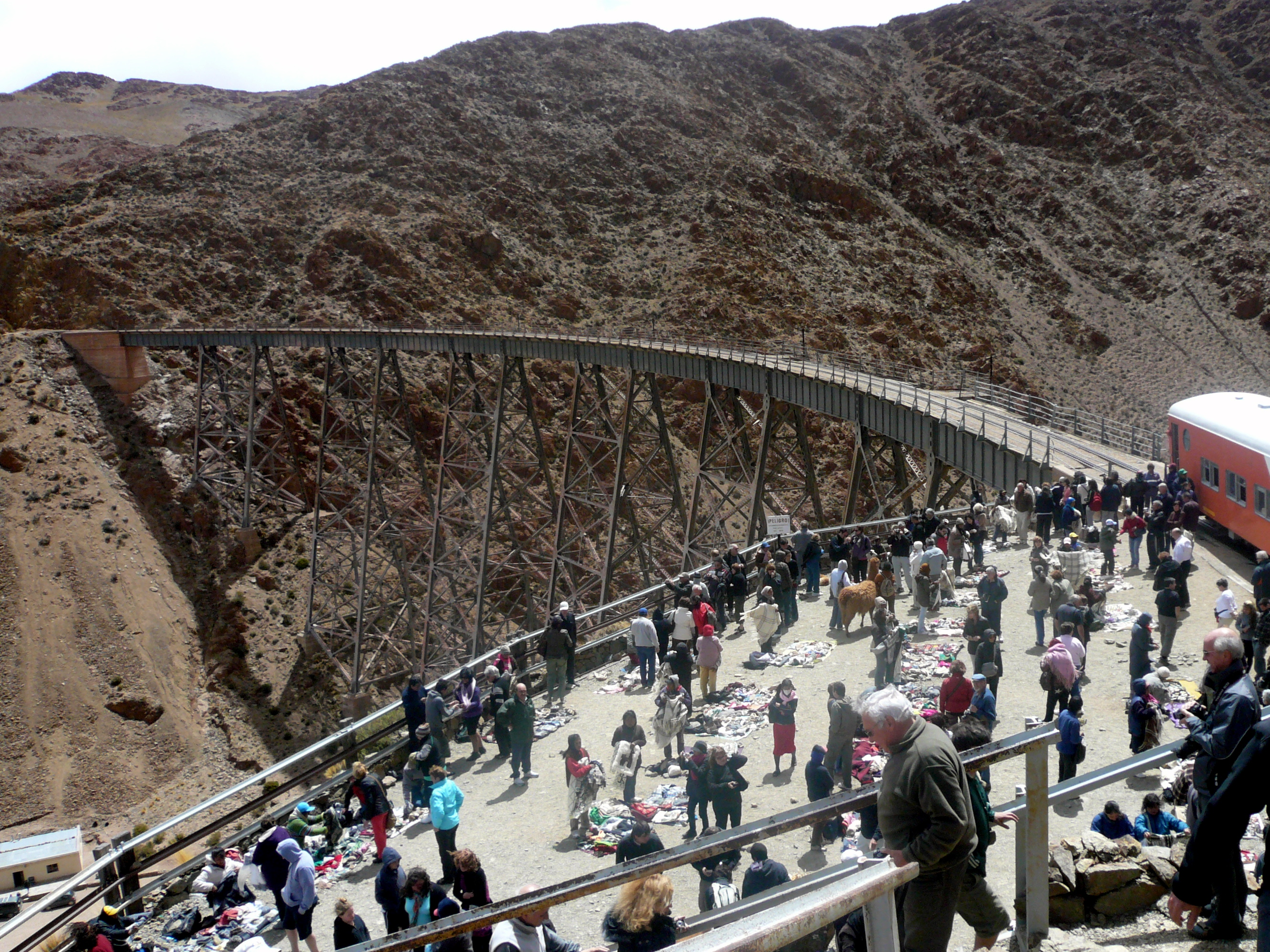 Crafts in Viaducto la Polvorilla